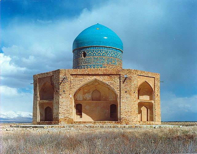 The Safavid Empire era Molla Hassan Kashi Mausoleum, Zanjan, Iran